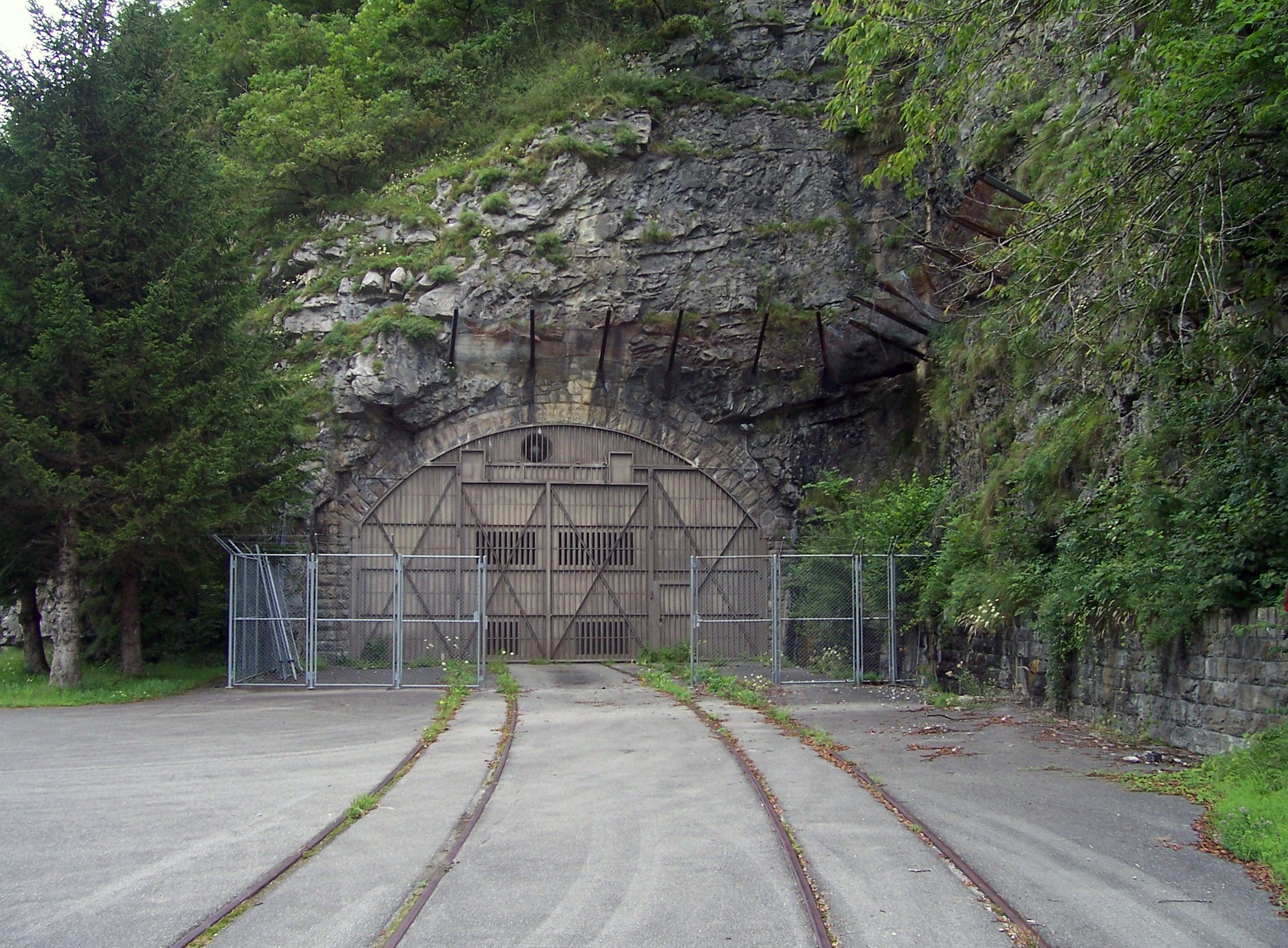 tunnel with rail access (coordinates 651'100, 177'530)